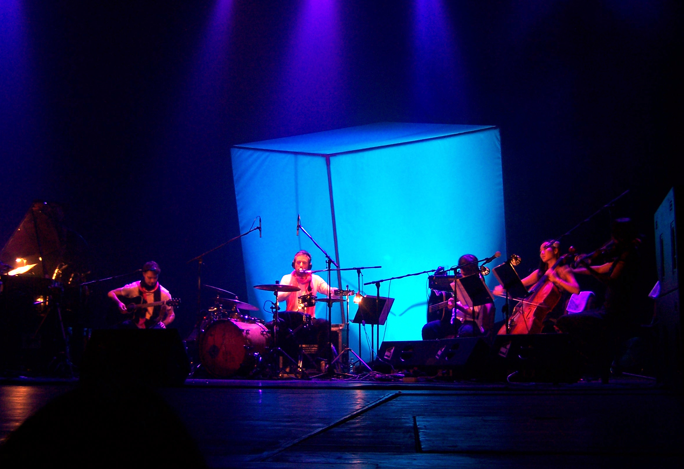 Tata Bojs & Ahn Trio: the first concert of the Smetana reTour 09.